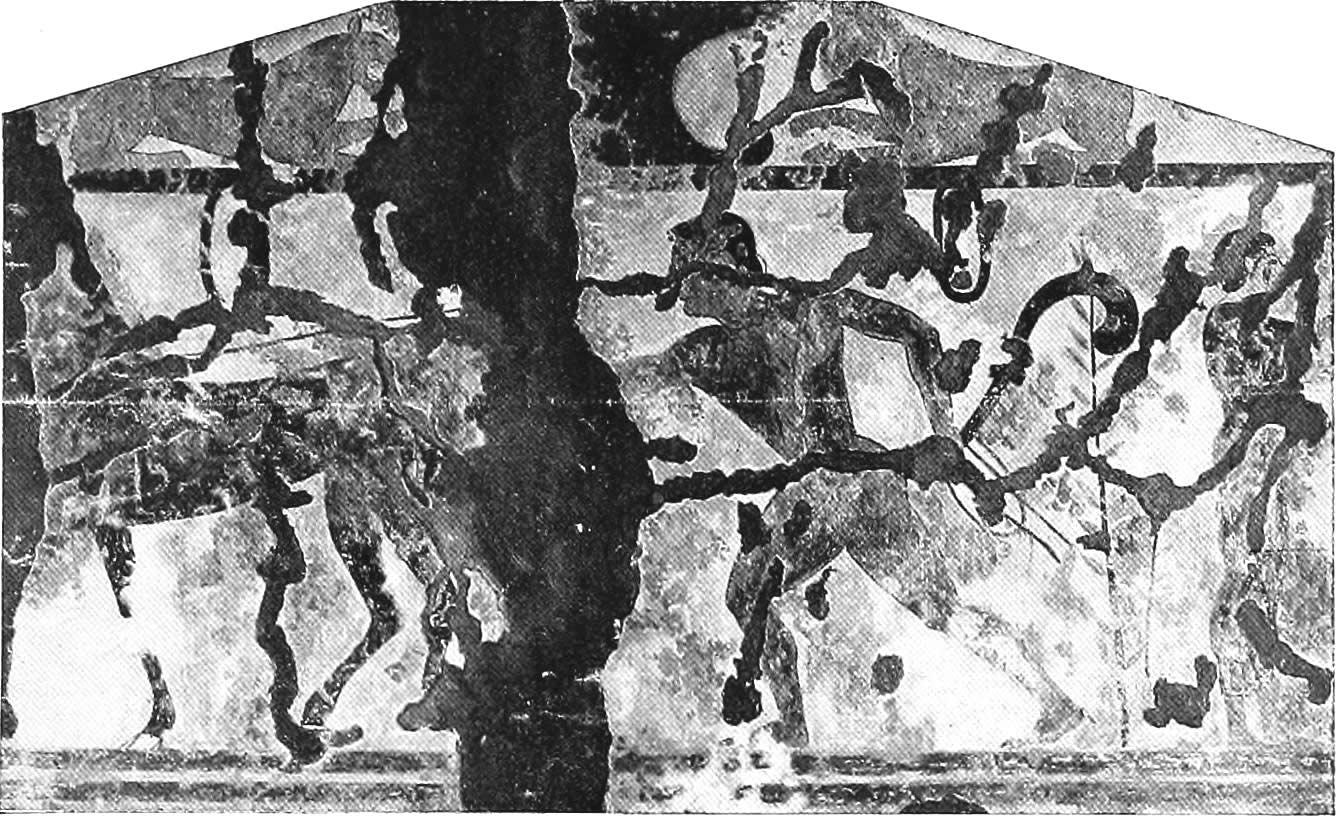 Tomba del Morente, painting on back wall